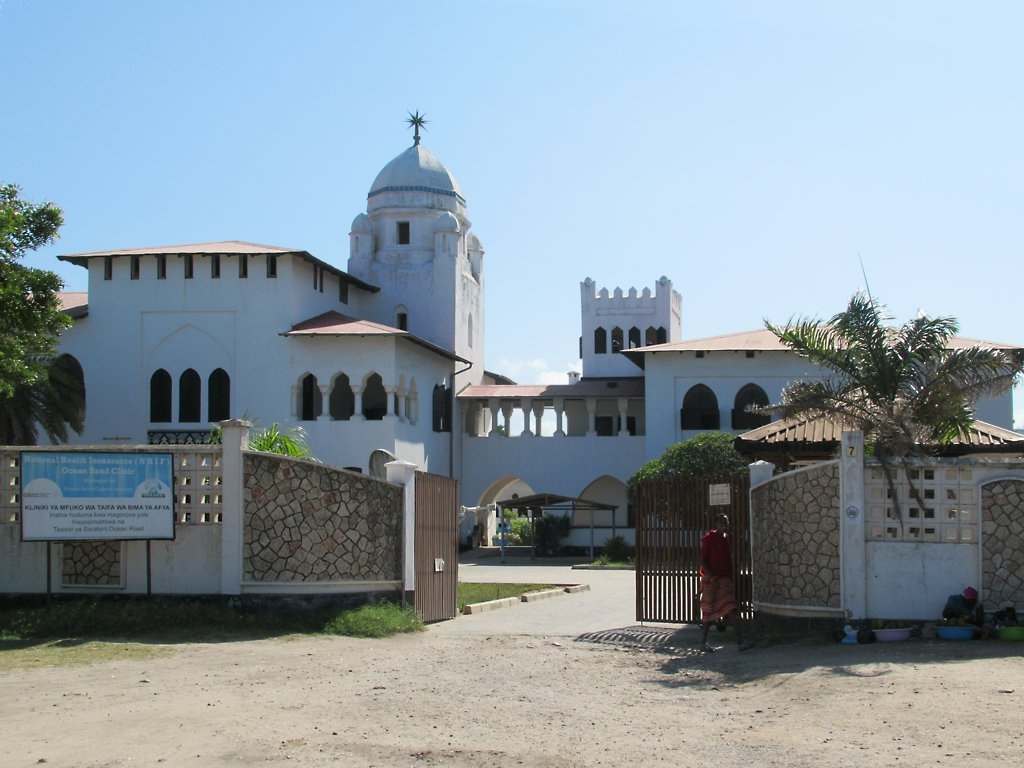 The Ocean Road Cancer Institute in Dar es Salaam, Tanzania, is an imposing German colonial building. Dr. Robert Koch did pioneering studies of malaria here in 1898.